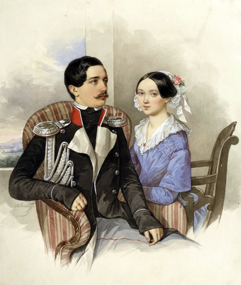 Sivers, Yakov Karlovich